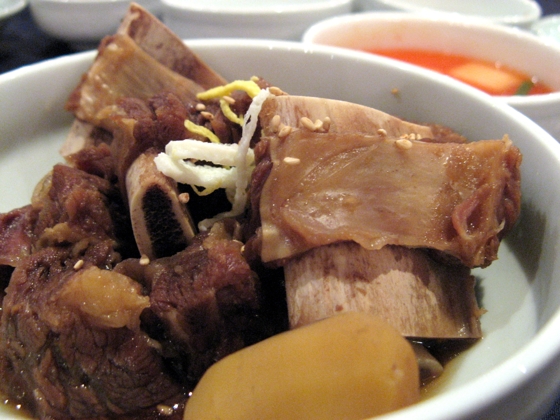 Galbijjim, steamed and braised galbi in Korean cuisine.